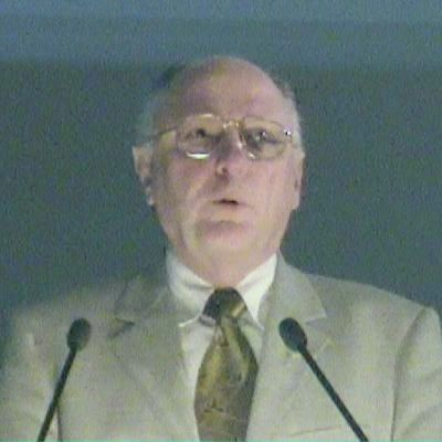 Alfred Schlya, Dortmunder Schachtage 2002, Photographer Gerhard Hund.